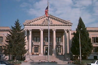 This is a photograph that I made showing the Alumni Hall at the Indiana School for the Deaf — in Indianapolis, Indiana. It is the school's main building, and holds all Administration offices as well as Middle school and High school students. It is in the NRHP Indiana School for the Deaf Historic District, and on the National Register of Historic Places in Marion County. I, Jason Wilson, took this photograph years ago. I release all rights to this image and submit it to the public domain.